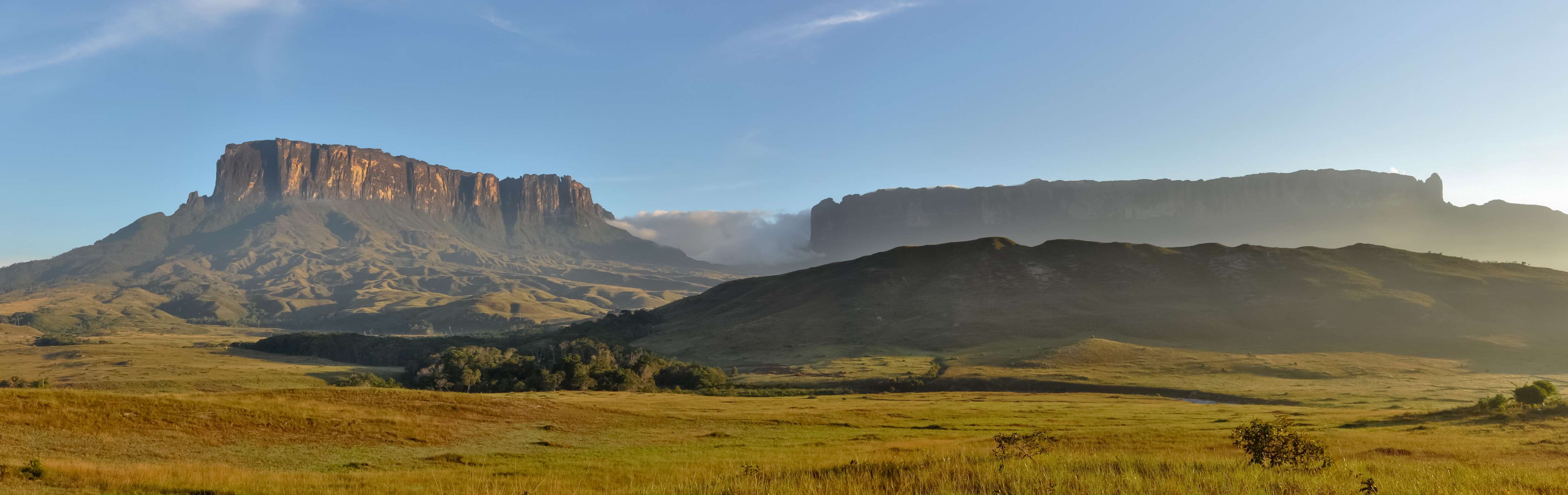 Morning view of Kukenan and Roraima tepuis, from Tëk river camp (river visible in the image), in Gran Sabana, Venezuela. Roraima tepui is actually some 100 mts higher than Kukenan, but due to the perspective of the picture, it looks like it is lower.